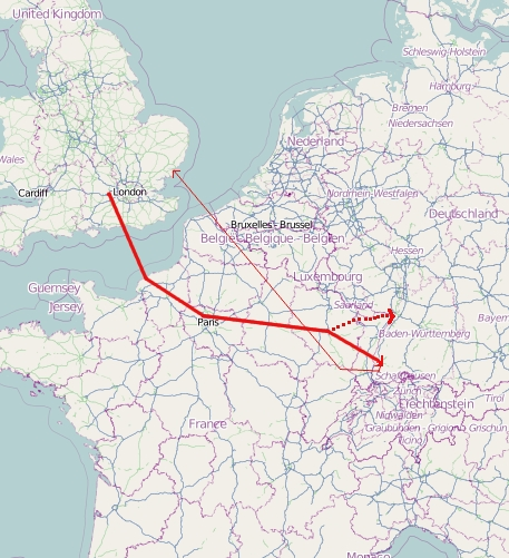 Flight routes of 1st and 8th groups of British bomber command planes on November 27, 1944. This map may be incomplete and may contain errors. Don't rely solely on it for navigation. Map created according to data in: Gerd R. Ueberschär, Freiburg im Luftkrieg 1939-1945 (Freiburg im Breisgau/Munich, 1990), illustration 127. ISBN 3-87640-332-4.